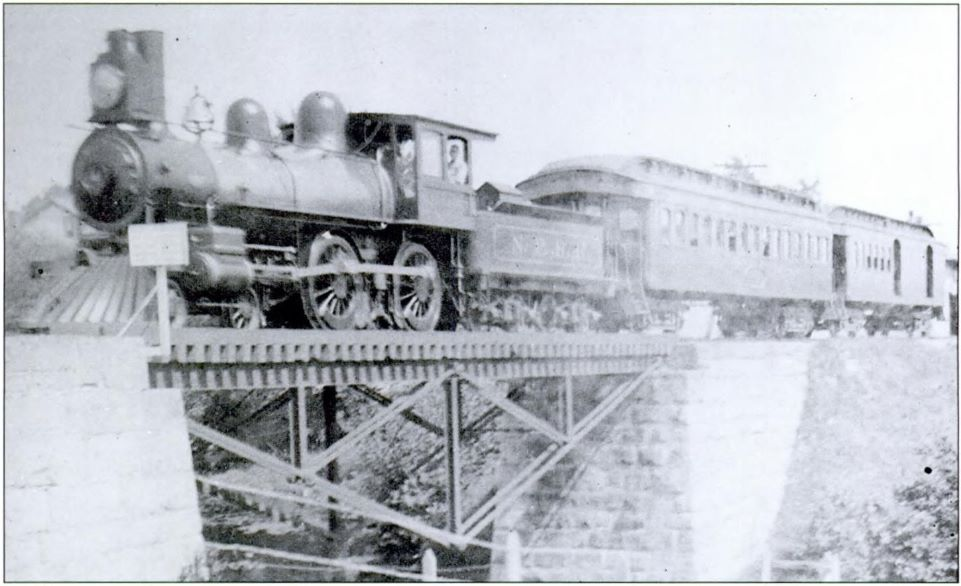 Nn Narragansett Pier Railroad. Steam locomotive on steel bridge